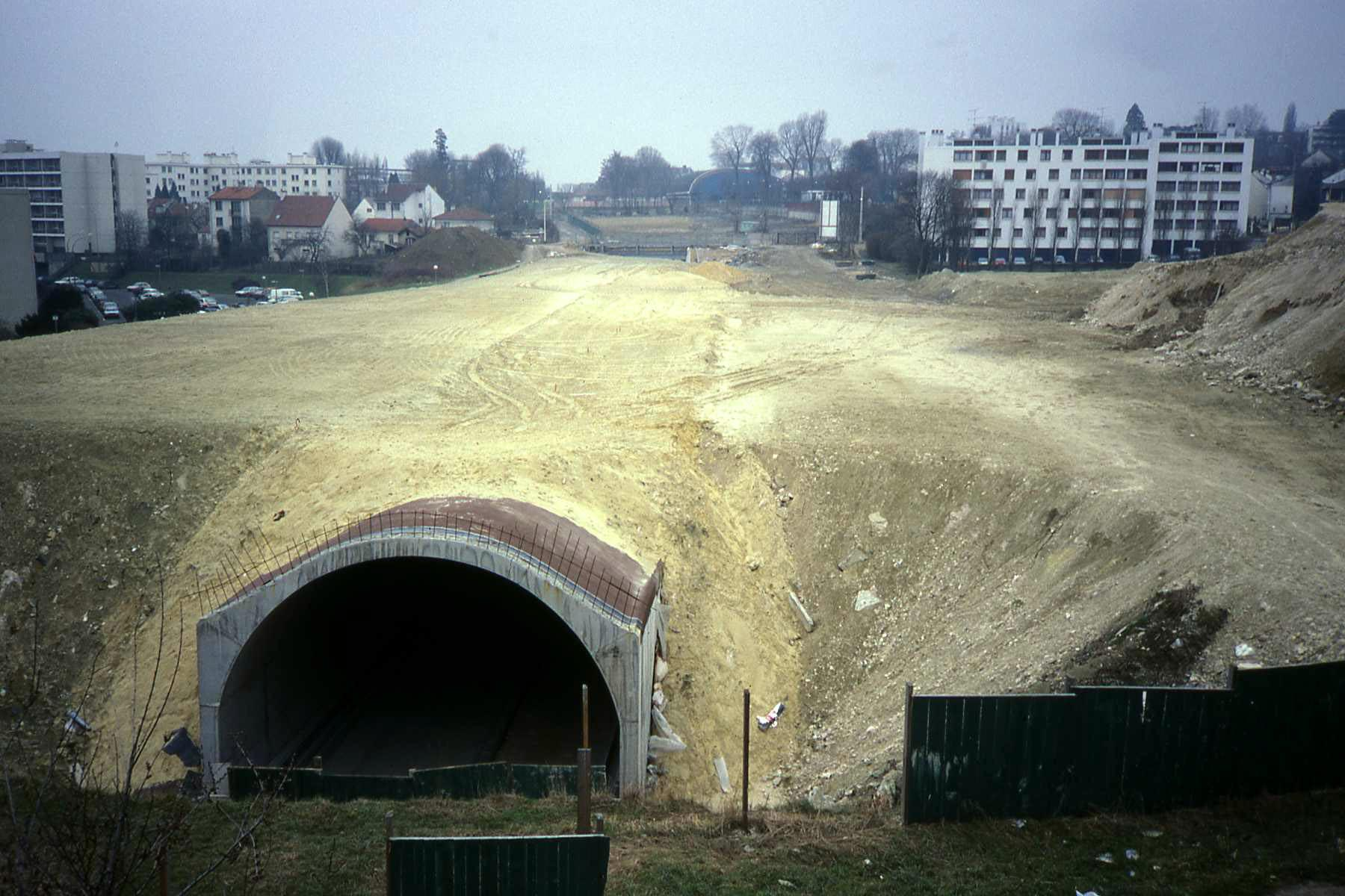 Covered tunnel for the HSL Atlantique in Paris suburbs